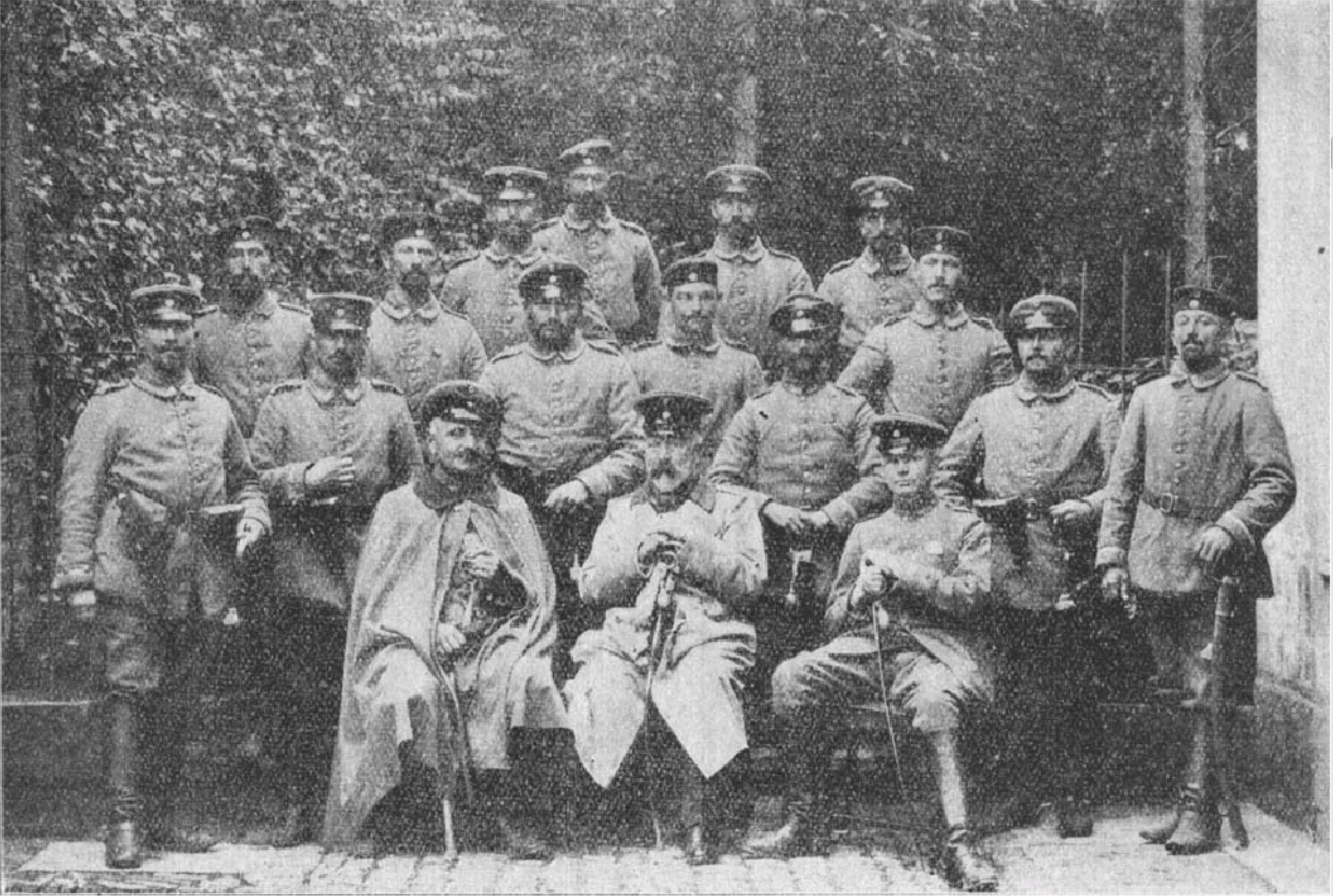 Eduard Buchner (center, front row) during World War I near Cambrai, France